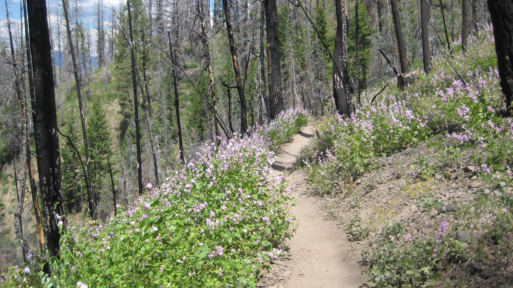 Flora blooming in the burn zone along a trail in Sawtooth National Forest